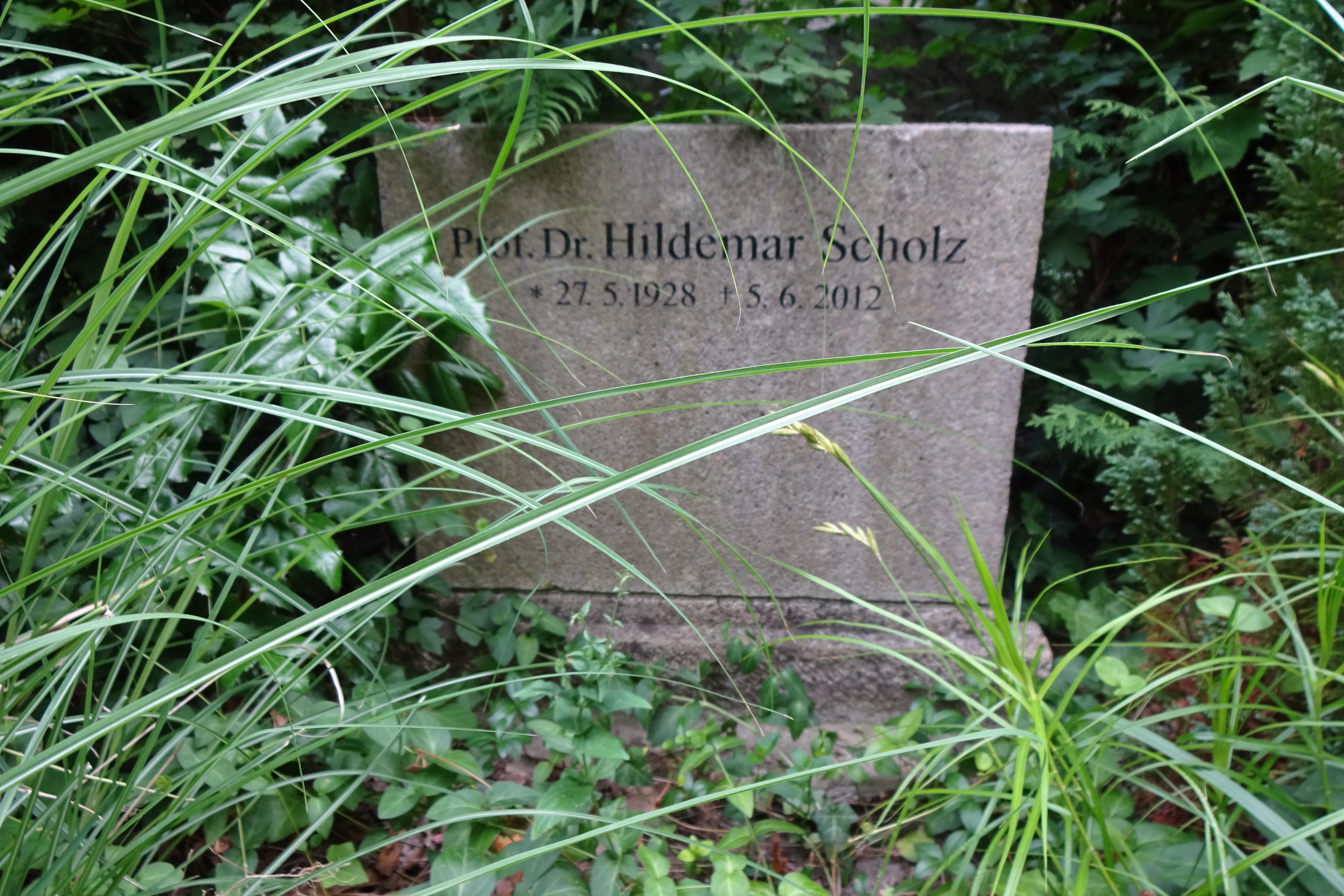 Grave of German botanist Hildemar Scholz in Parkfriedhof Lichterfelde in Berlin, Germany.